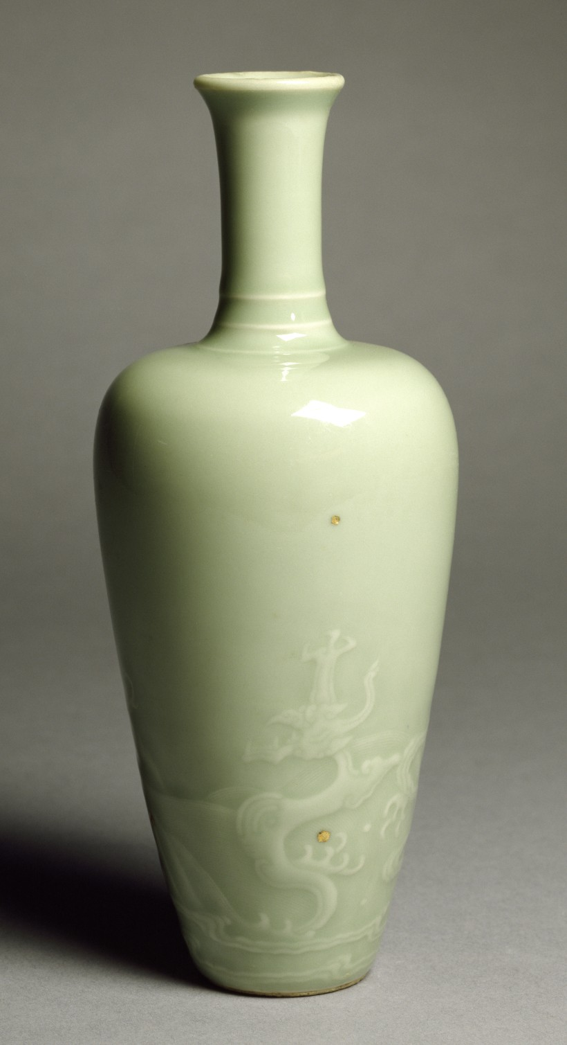 Low-relief dragons rise from the sea on the lower part of this vase, which was made for use in the imperial palace. Vases of this shape belonged on a writing table and mimicked the shapes of Song [Sung] dynasty wares in a more intellectualized and refined way.